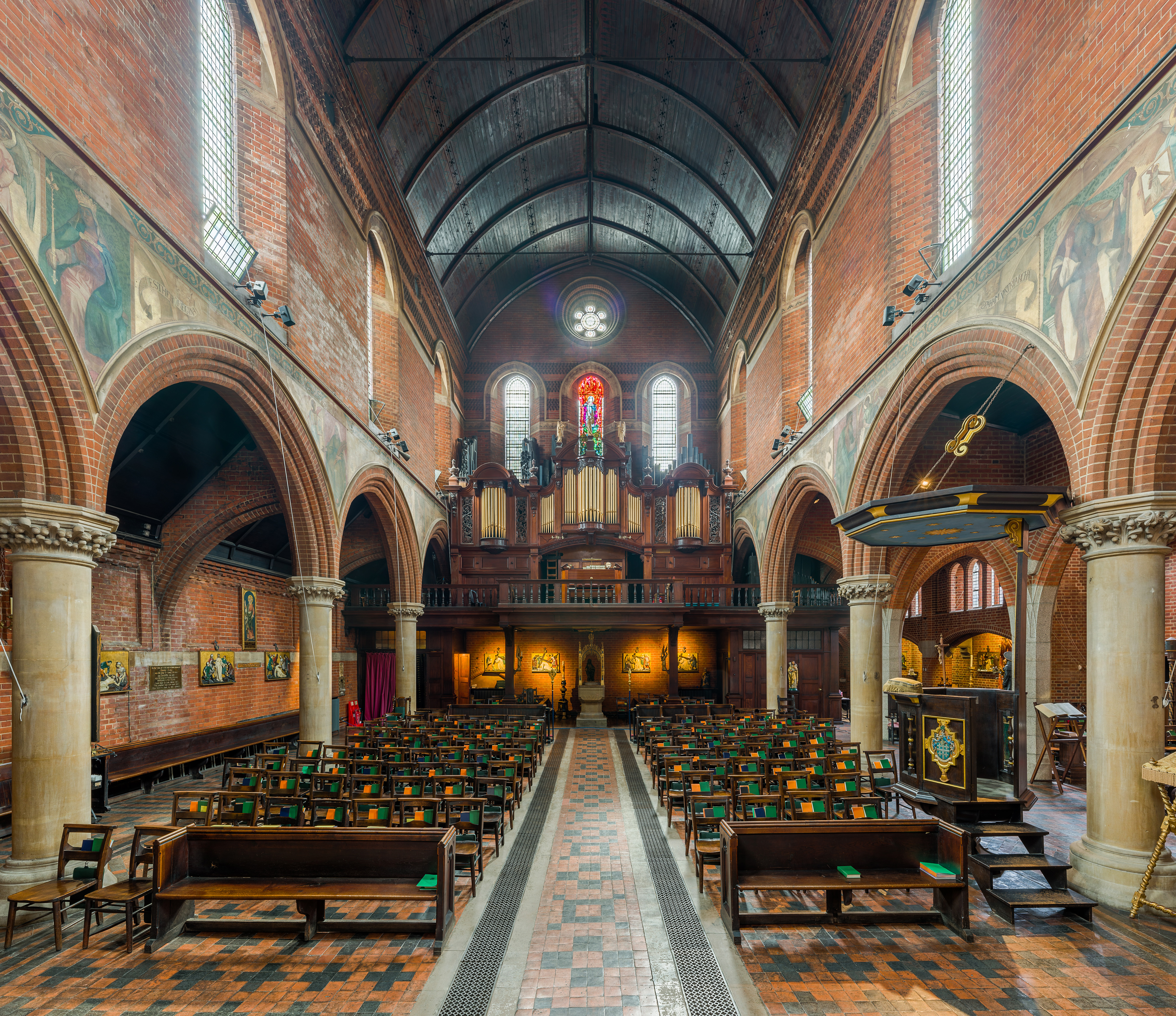 The interior of St Mary's, Bourne Street Church, London, UK, facing south west towards the organ. The west window of St George and St Edward the Confessor, hidden behind the organ, was added in 1897, designed by Mary Lowndes.